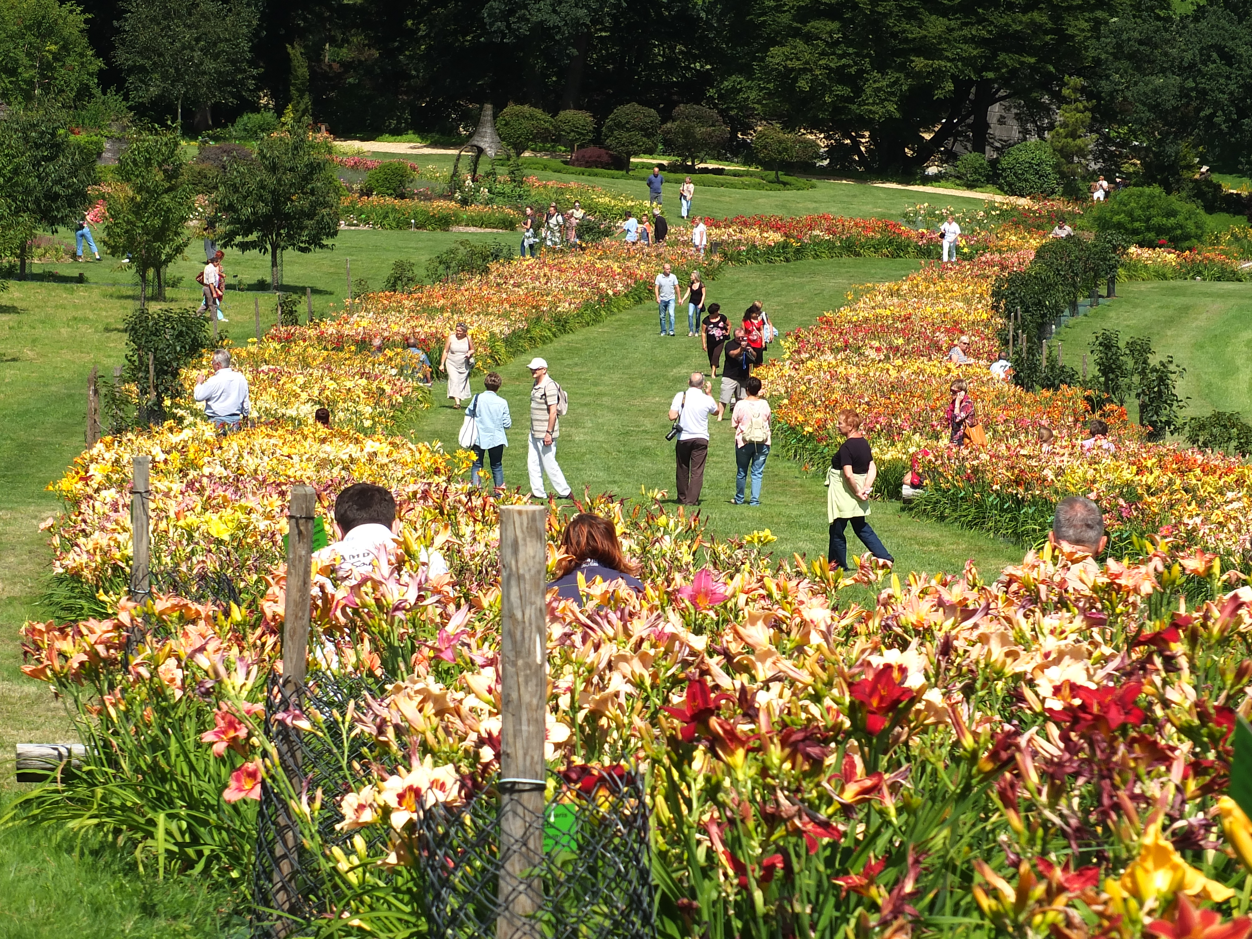 Flower carpets in Wojsławice.